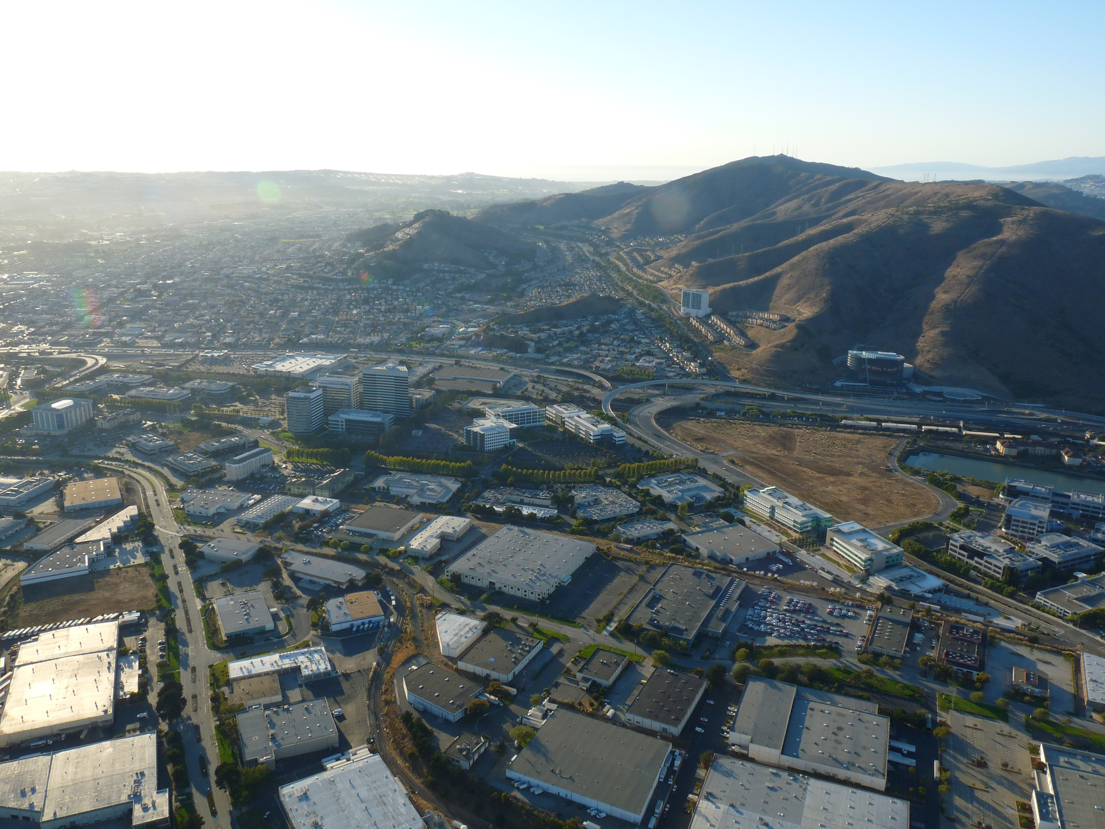 Aerial photograph facing west over South San Francisco, California. Prominent features include San Bruno Mountain (background, right) and Sign Hill (background, center/left) with U.S. 101 (Bayshore Freeway) running north-south from right to left through the middle of the picture. The two interchanges with US 101 are for Oyster Point Boulevard (diagonal from center/right to right edge of picture) and Grand Avenue (bottom left area of picture).